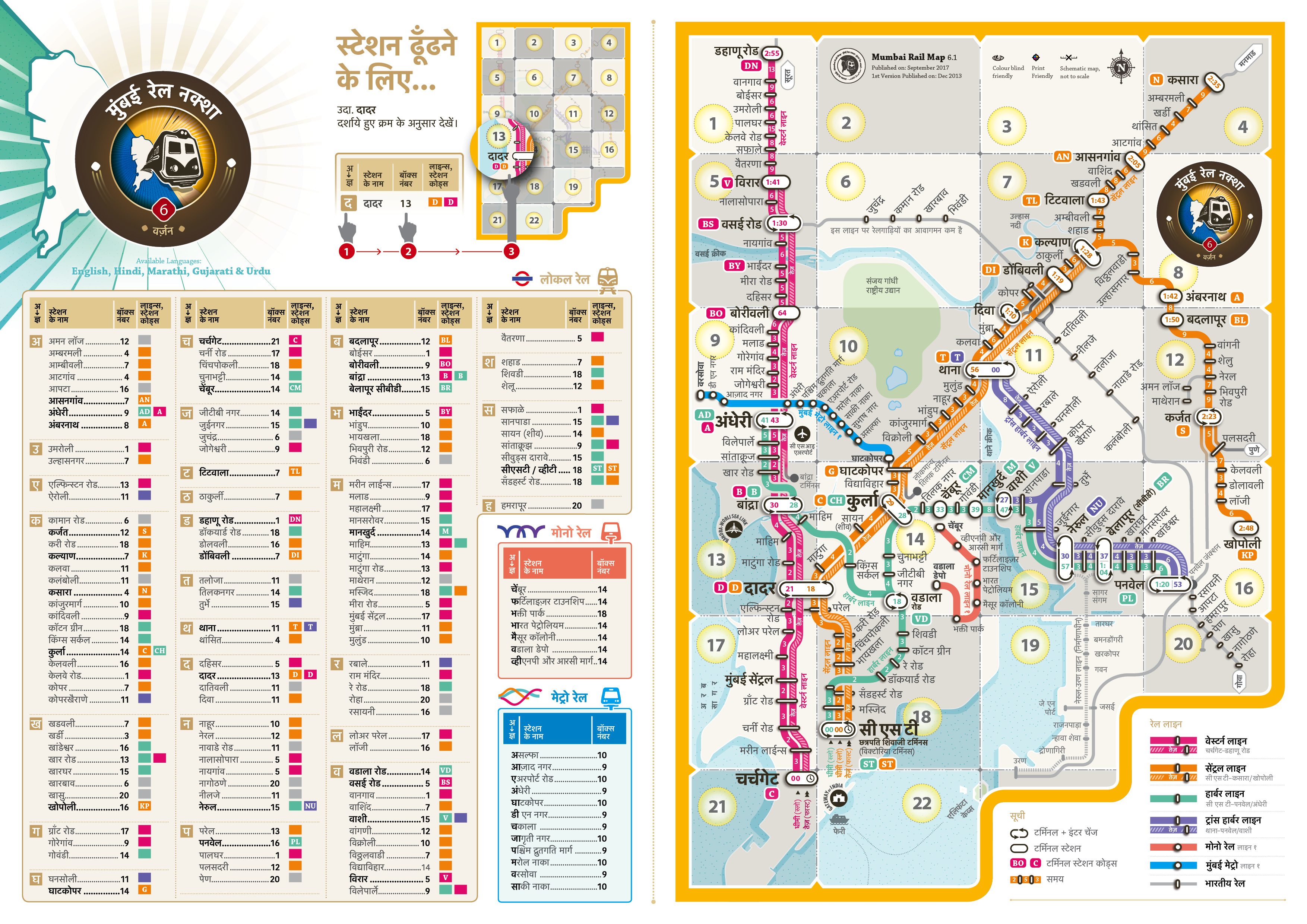 Version: 6.1